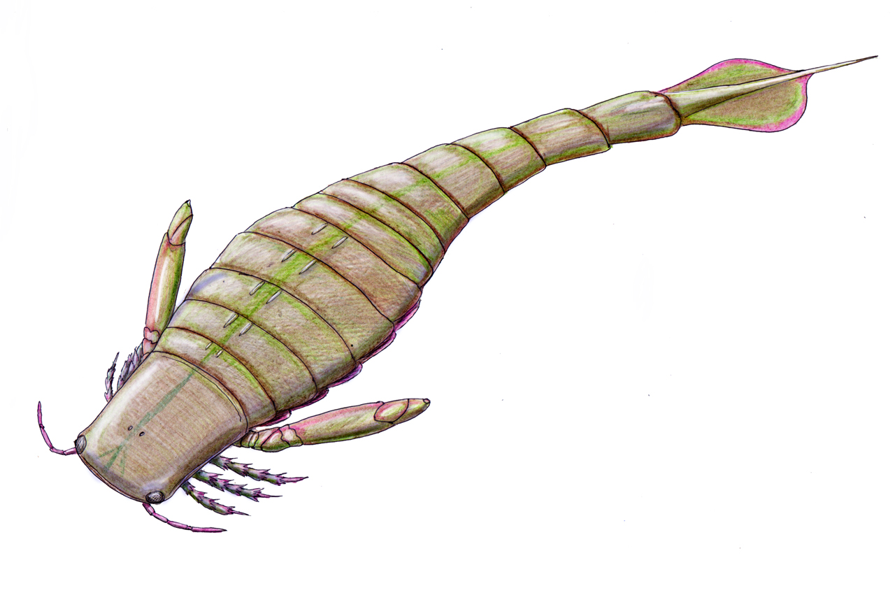 Slimonia acuminata - Eurypterid from Silurian, Herefordshire, England